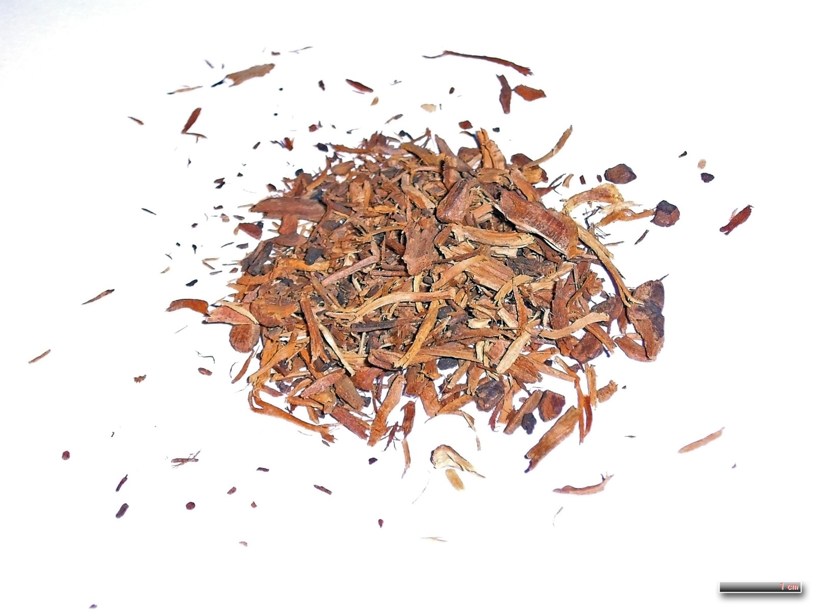 dried Krameria lappacea, the para rhatany and Peruvian rhatany, Krameria canescens, Krameria triandra, Krameria linearis Root